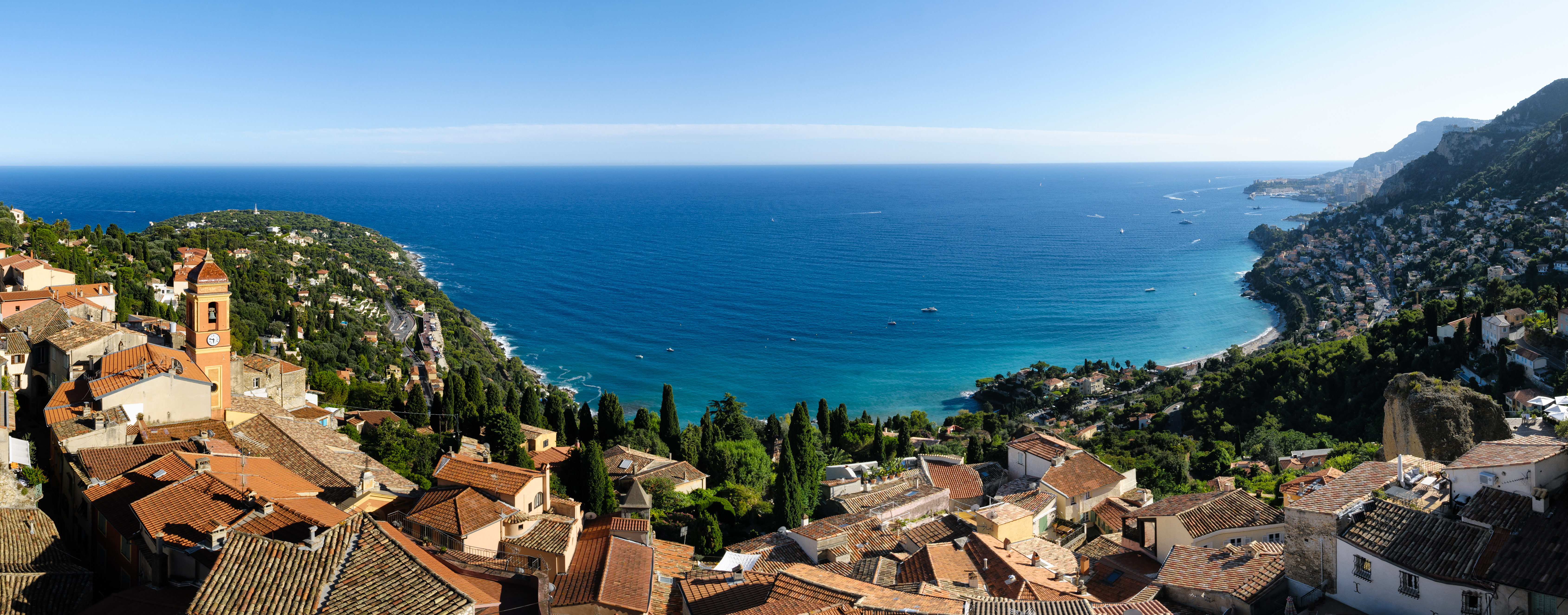 The Bay of Roquebrune, viewed from the castle. Monaco lies on the right.